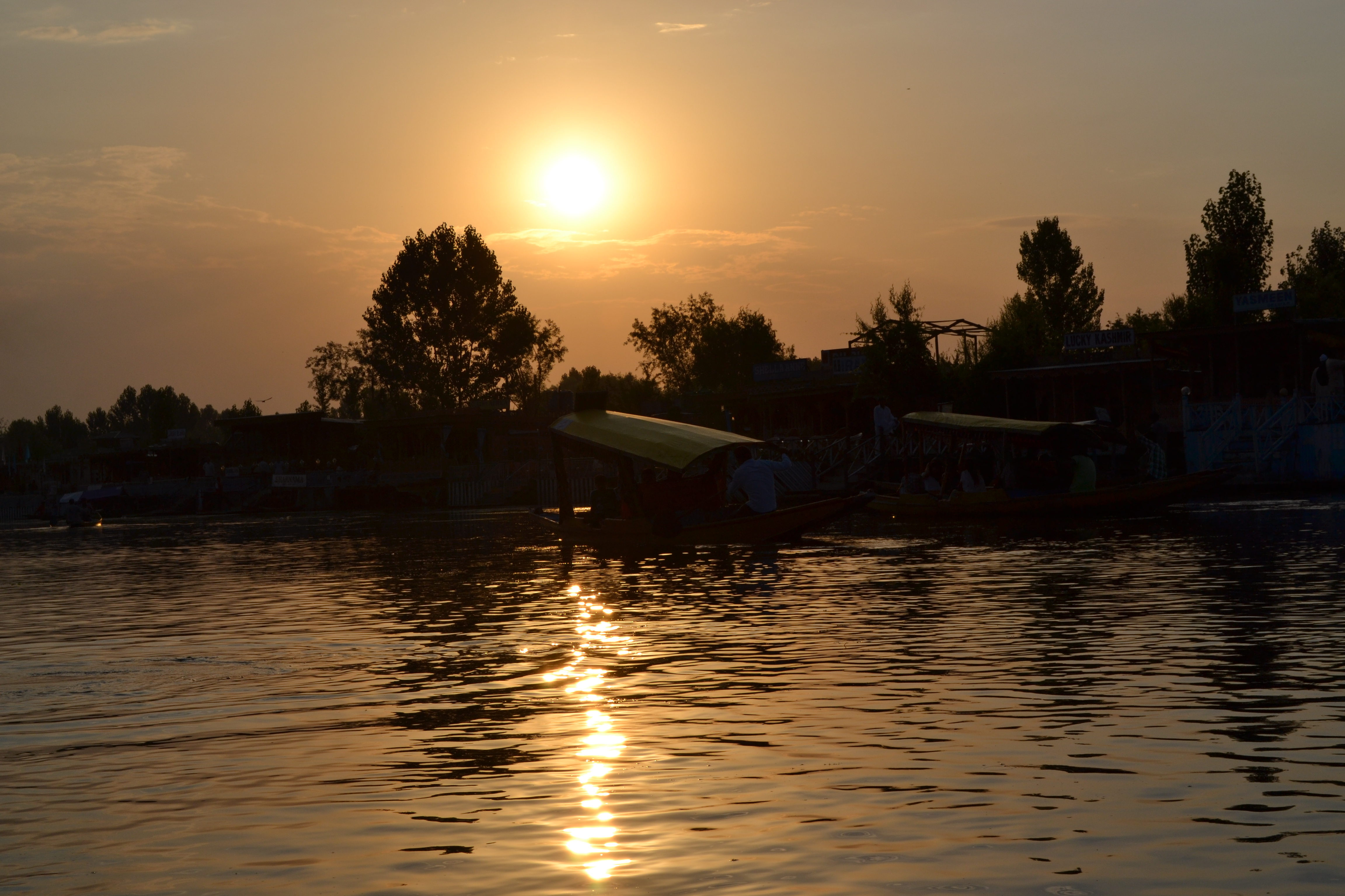 Shikara Ride in Srinagar, Kashmir